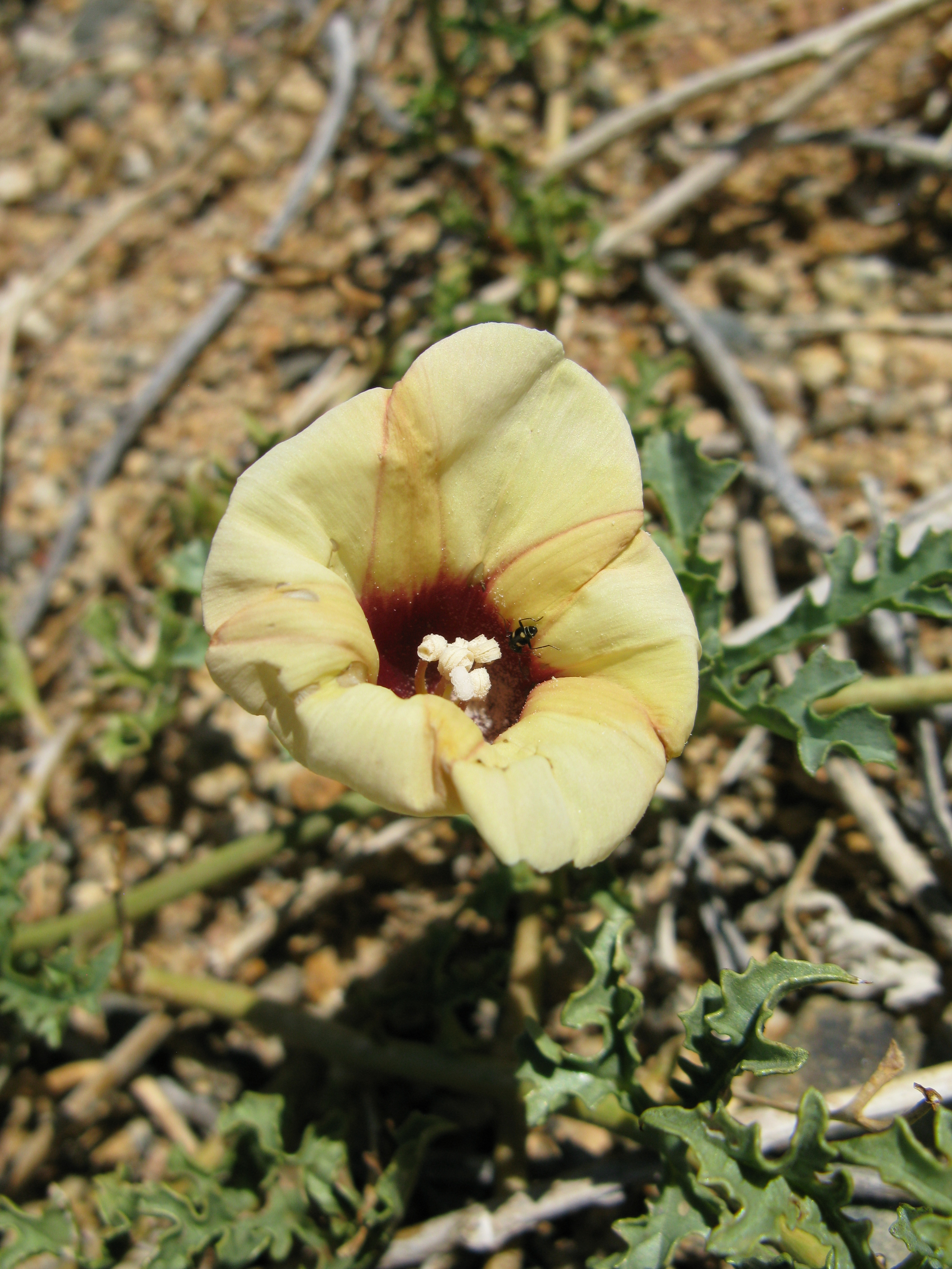 Flowering plant in Hungorob gorge, Brandberg massif, Namibia